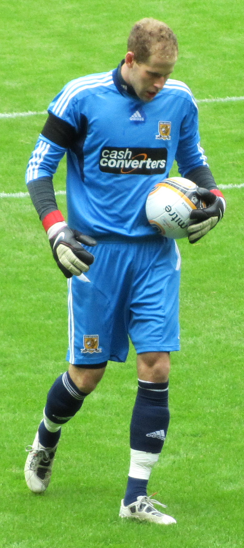 Péter Gulácsi